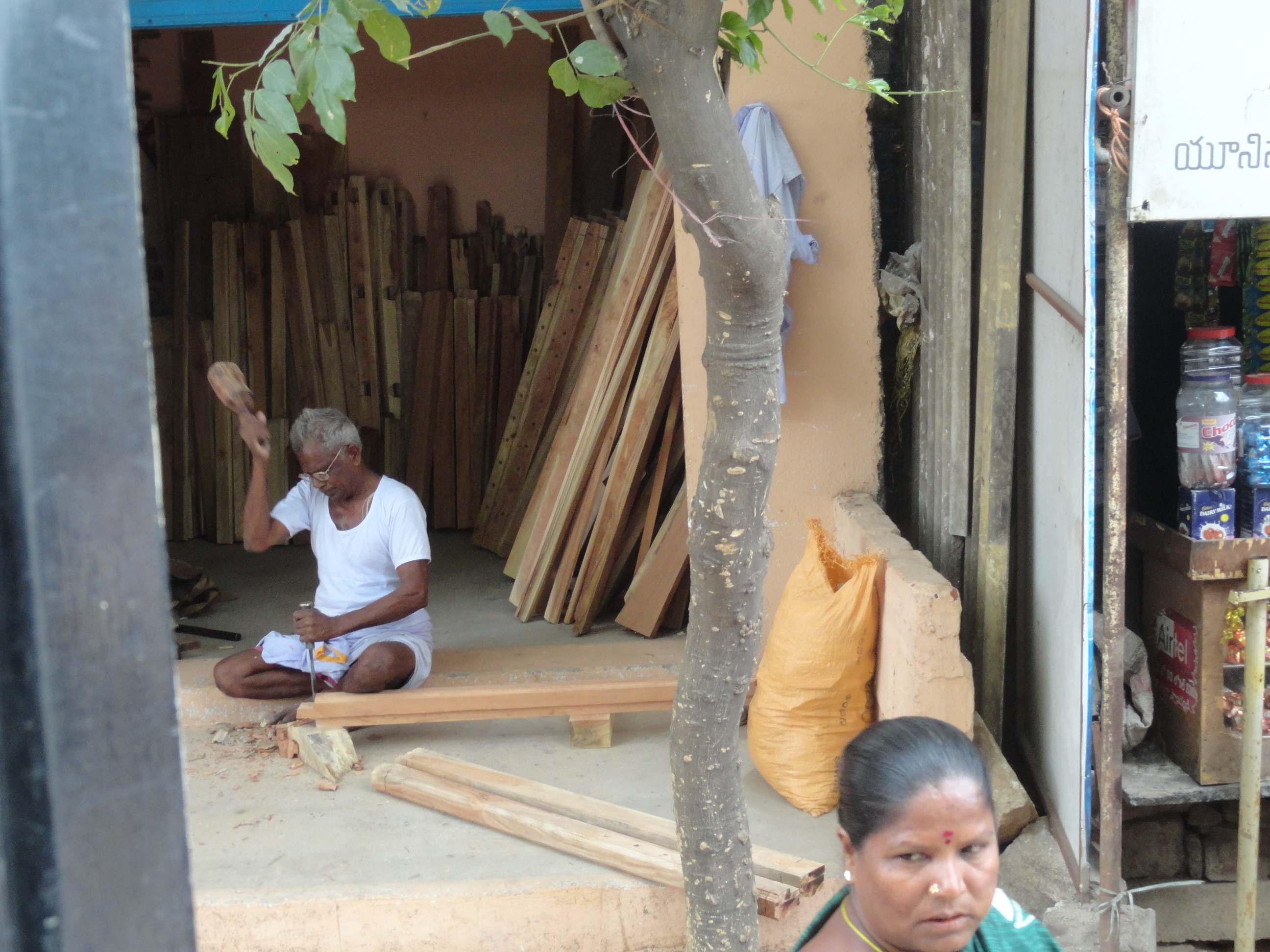 పనిలో ఉన్న వడ్రంగి. చంద్ర గిరి లో